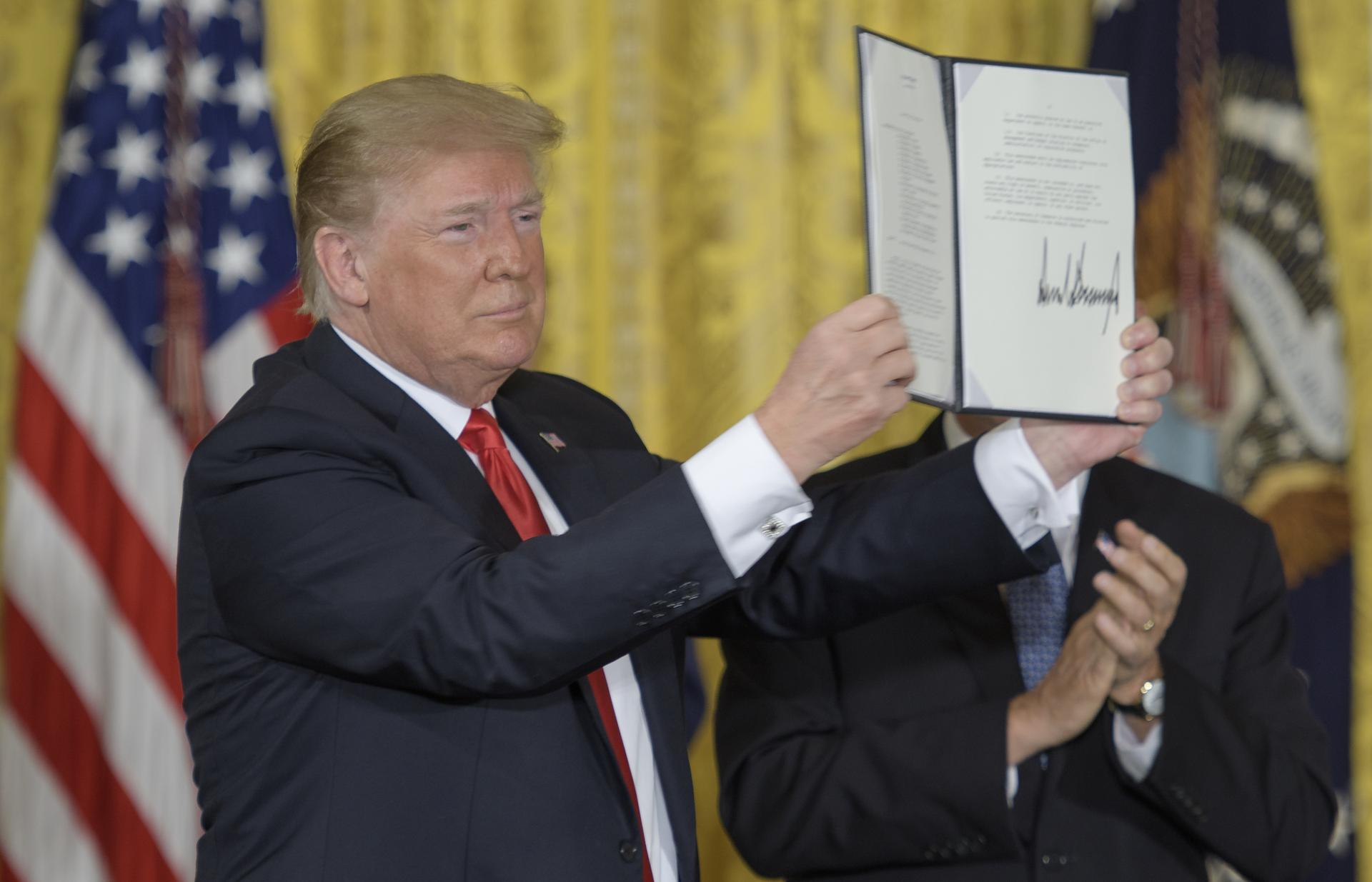 President Donald Trump holds up Space Policy Directive - 3 after signing it during a meeting of the National Space Council in the East Room of the White House, Monday, June 18, 2018, in Washington. Chaired by the Vice President, the council's role is to advise the President regarding national space policy and strategy, and review the nation's long-range goals for space activities.